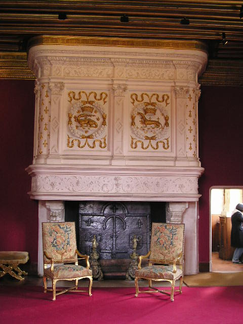 This is the Louis XIV Living Room on the main floor of Chateau-de-Chenonceau in Chenonceau, France.